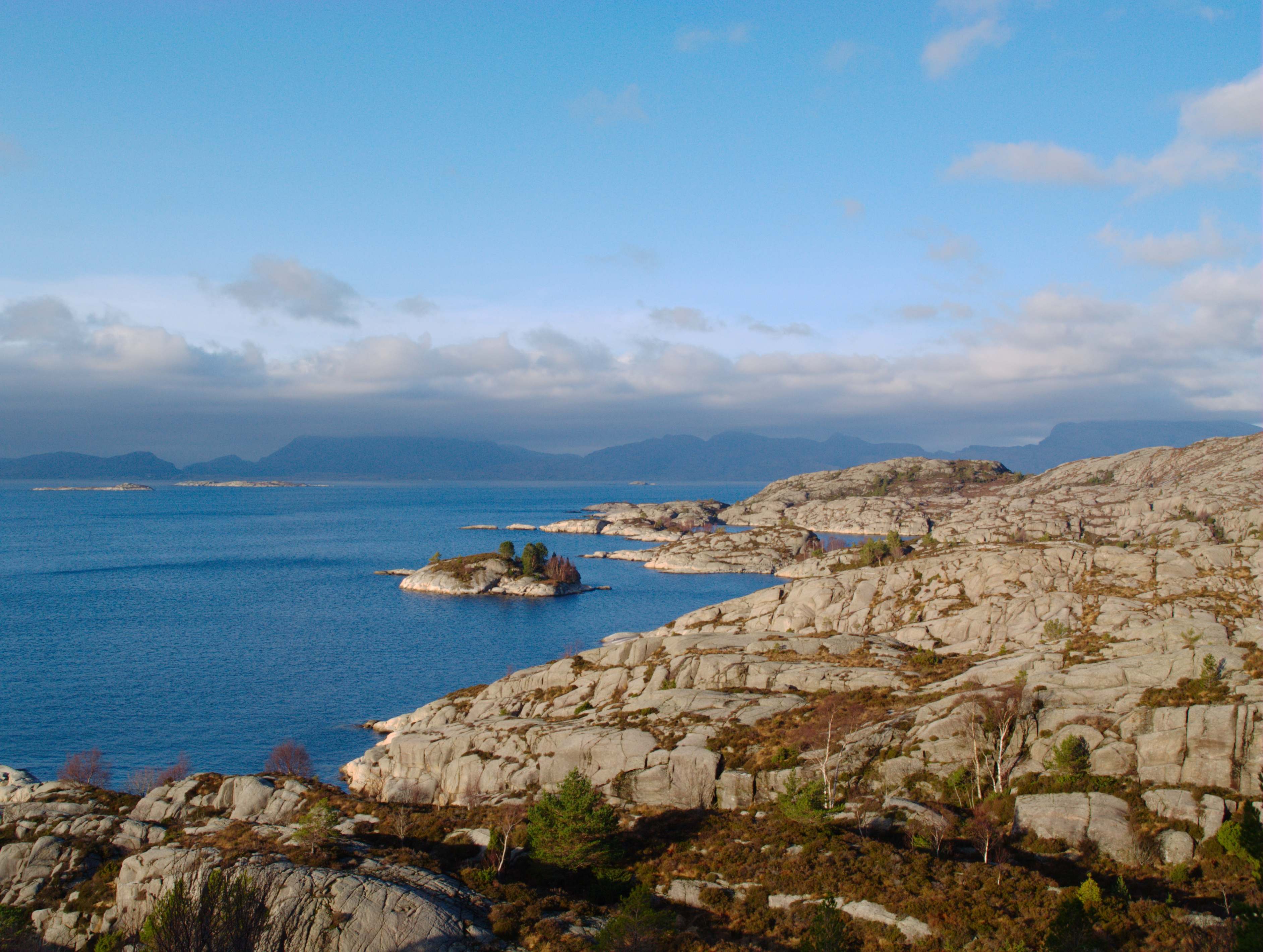 View over Sognesjøen on the road from Dingja to Eivindvik in Gulen municipality, Norway.